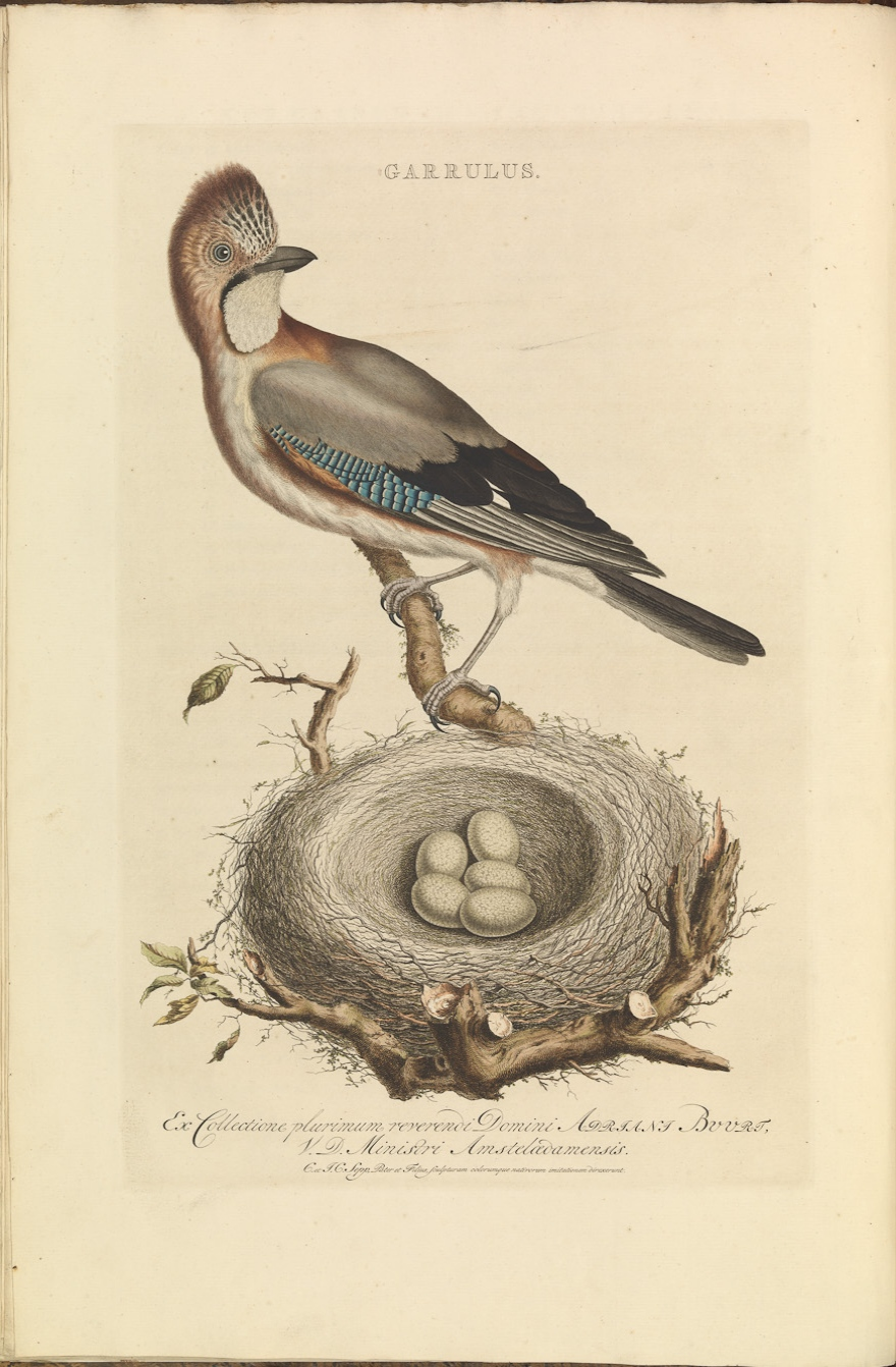 Plate 1 from the Nederlandsche vogelen by Nozeman and Sepp.